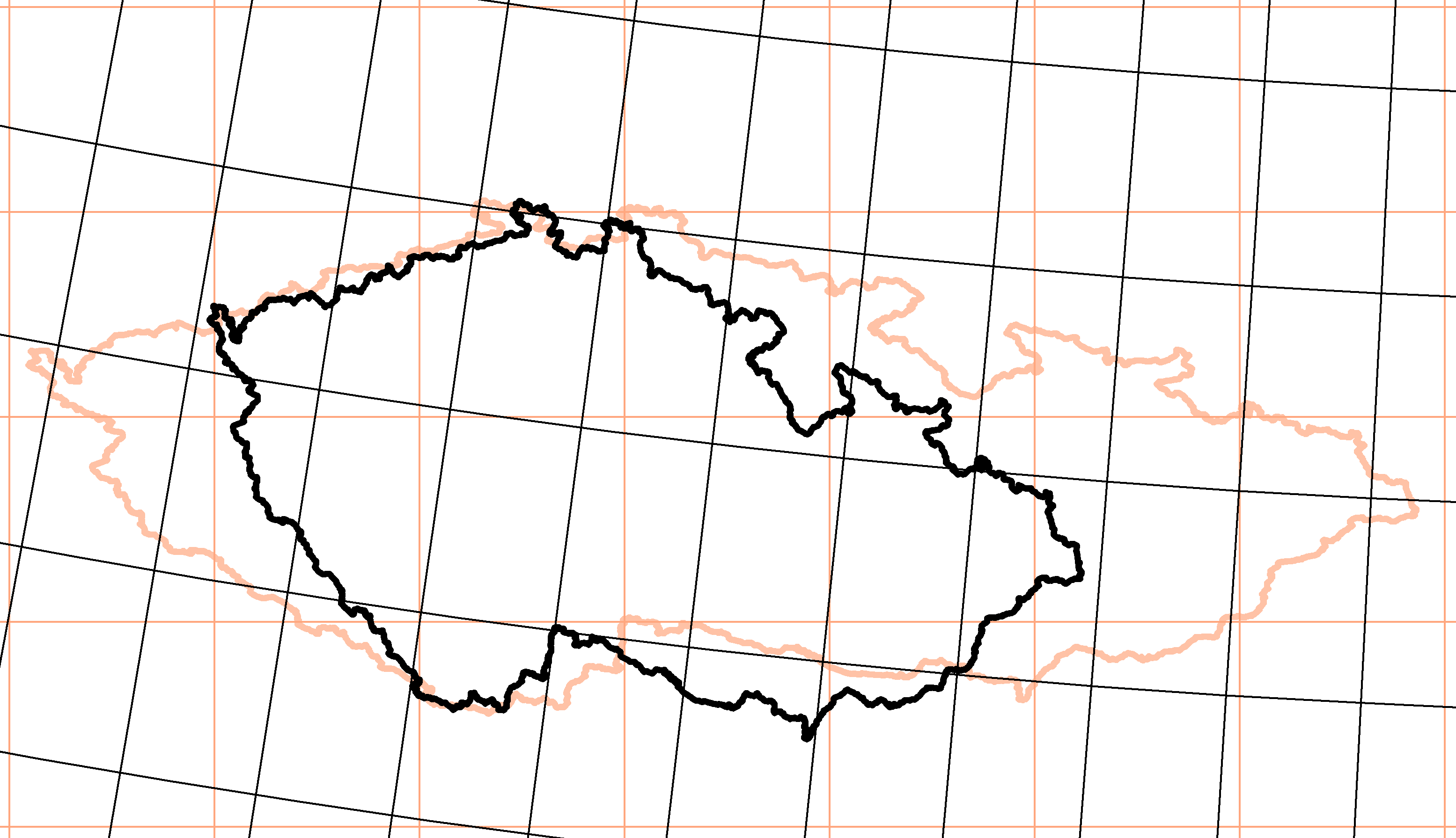 Czech Republic in Křovák projection (black) in comparison with WGS84